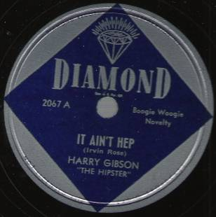 Label of a 1947 record by Harry The Hipster